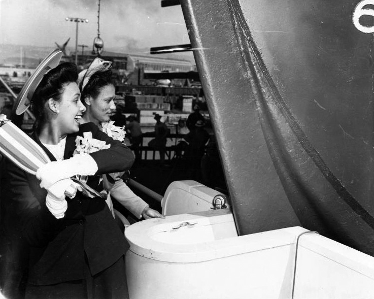 Launching the liberty ship SS George Washington Carver. Alternate Caption: Lena Horne, African American actress, singer, and sponsor of the SS George Washington Carver, swinging a champagne bottle to christen the Liberty ship SS George Washington Carver as another African American woman looks on, Richmond Shipyard No. 1, Richmond, California, May 7, 1943. Original Caption: The SS George Washington Carver, second liberty ship to be named for an outstanding Negro American, was launched at the Richmond (Cal.) Shipyard No. 1 of the Kaiser Company on May 7, 1943; With the traditional words "I christen thee George Washington Carver," Lena Horne, sponsor of the ship begins the swing with the champagne bottle.